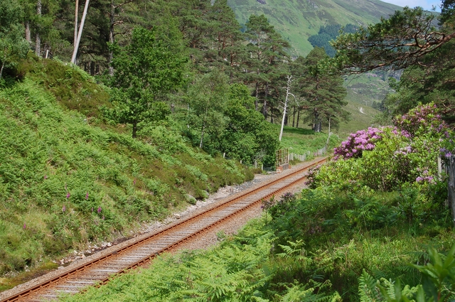 The Kyle Line at Loch Dughaill The Kyle of Lochalsh railway line running through natural forest above Loch Dughaill.